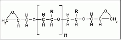 Flexíveis